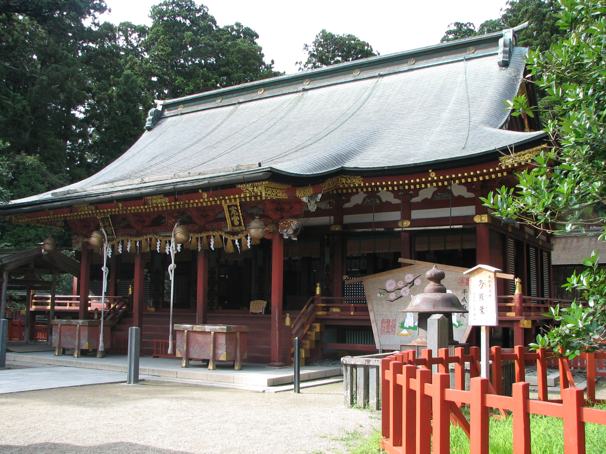 the haiden of Shiogama Shrine U-gū and Sa-gū, Shiogama, Miyagi, Japan 鹽竈神社右宮・左宮 拝殿（宮城県塩竈市）